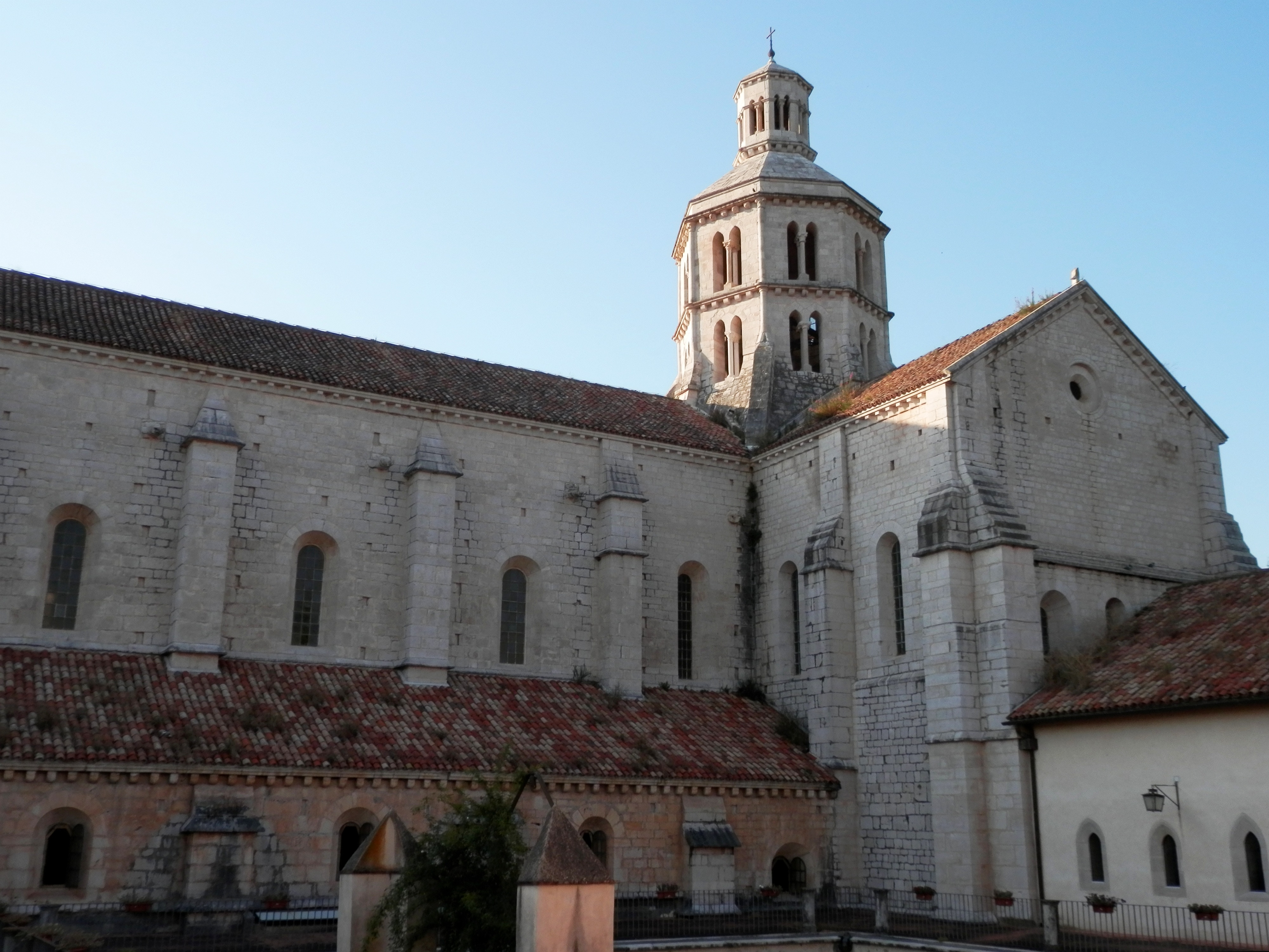 The Fossanova Abbey in Priverno, Province of Latina, Italy